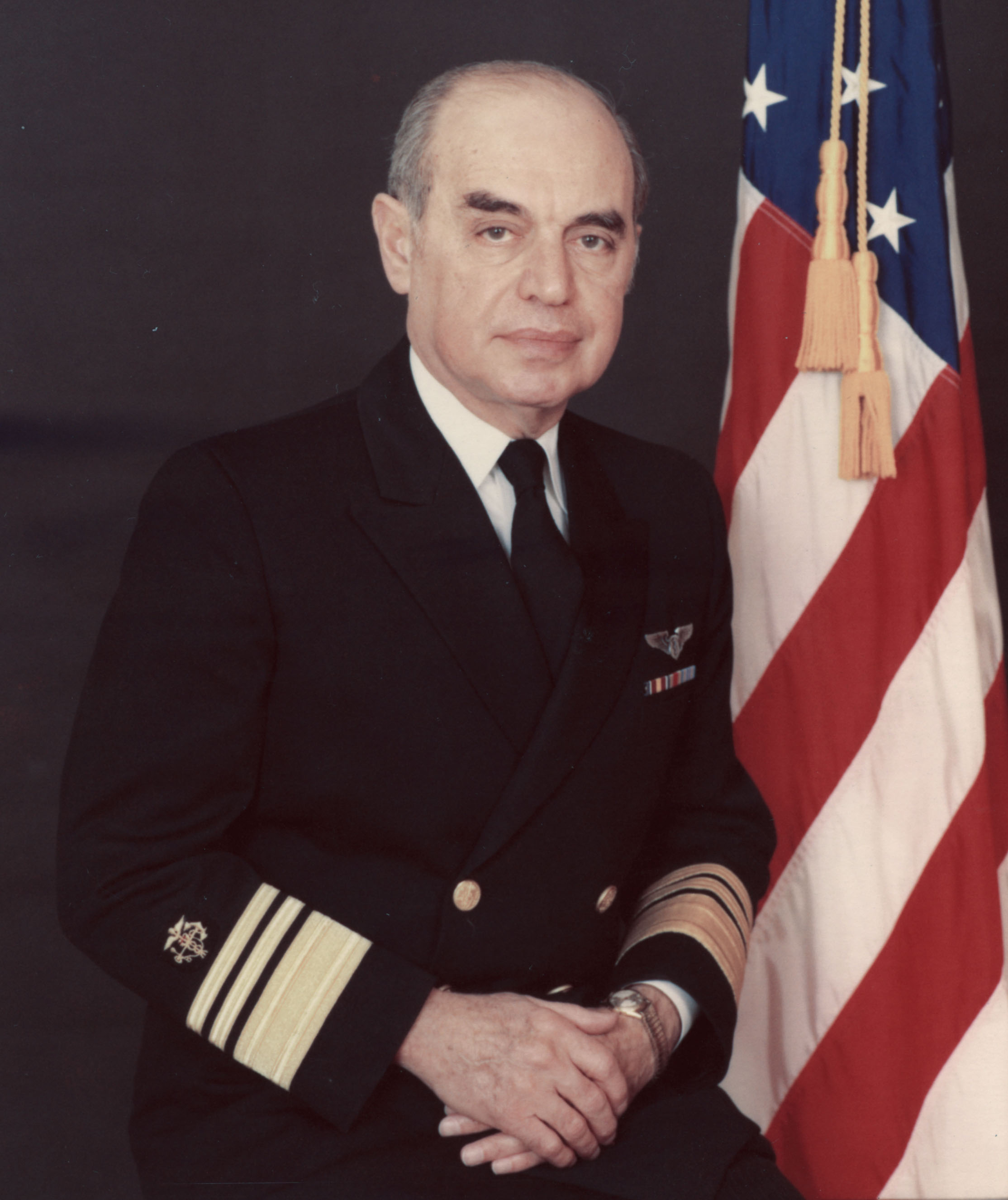 Julius Richmond, former Surgeon General of the USA.